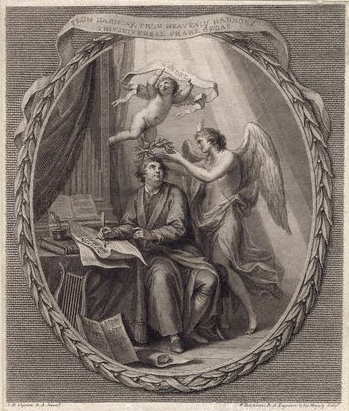 Depiction of George Friderich Handel receiving a crown of laurels